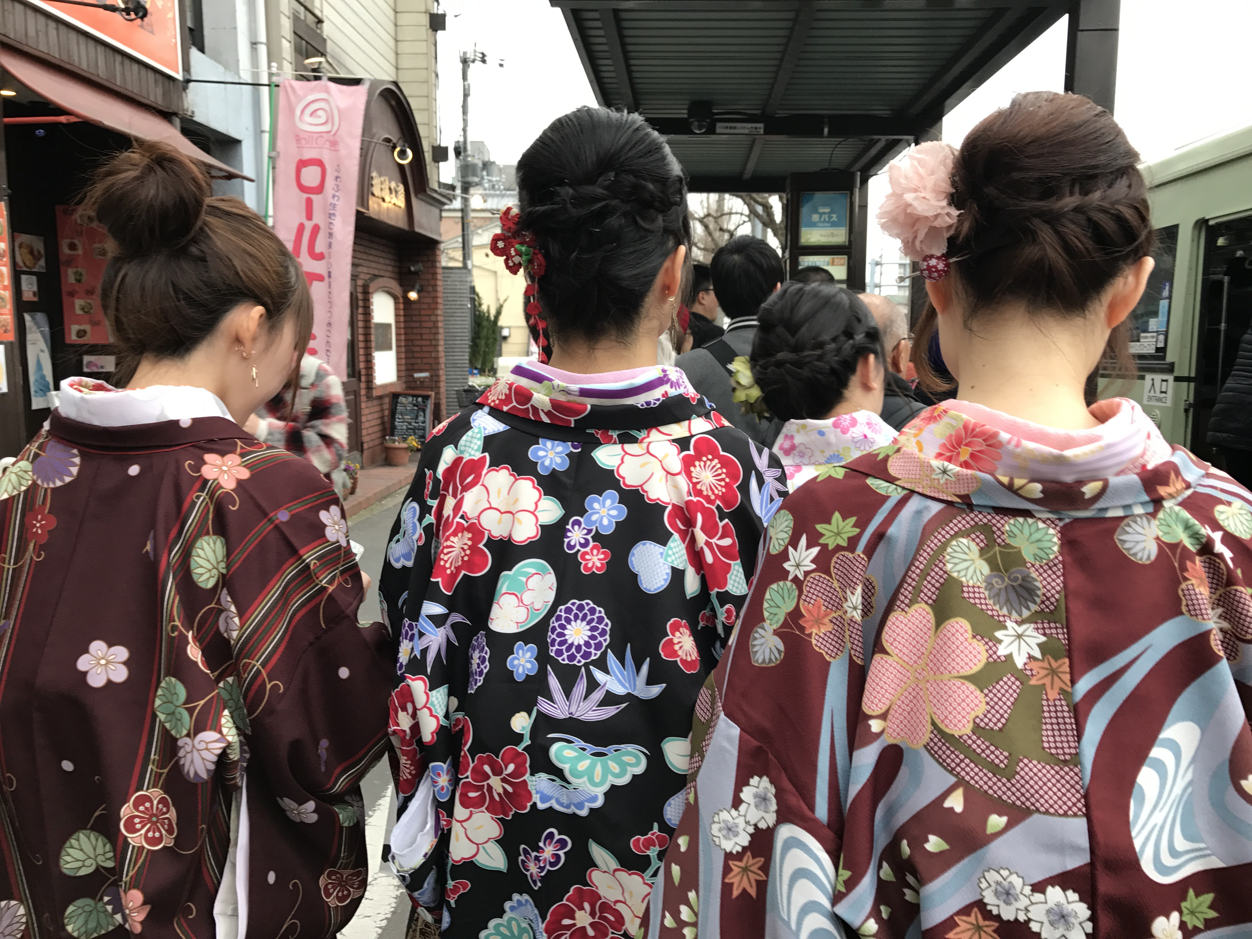 Uploaded from bangdoll-iPhone7plus.